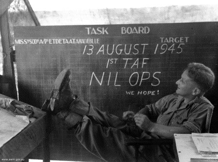 AWM Caption: LABUAN, NORTH BORNEO. 1945-08. HOW THE WAR ENDED AT RAAF'S MOST WESTERLY BASE IN THE SOUTH WEST PACIFIC AREA. ACTUALLY, ANOTHER AIR STRIKE DID OCCUR AFTER THIS NOTICE WAS POSTED ON THE OPERATIONAL BOARD AT FIRST TACTICAL AIR FORCE HEADQUARTERS, BUT THE INTELLIGENCE OFFICER, 57284 FLIGHT LIEUTENANT LOCKE OF HOBART, TAS, WAS QUITE SATISFIED WHEN THE PHOTOGRAPHER CAUGHT HIM ON MONDAY AFTERNOON 1945-08-13, TAKING IT EASY IN THE "INTELL" ROOM IN FRONT OF THE TASK BOARD BEARING THE DATE 13 AUGUST 1945.